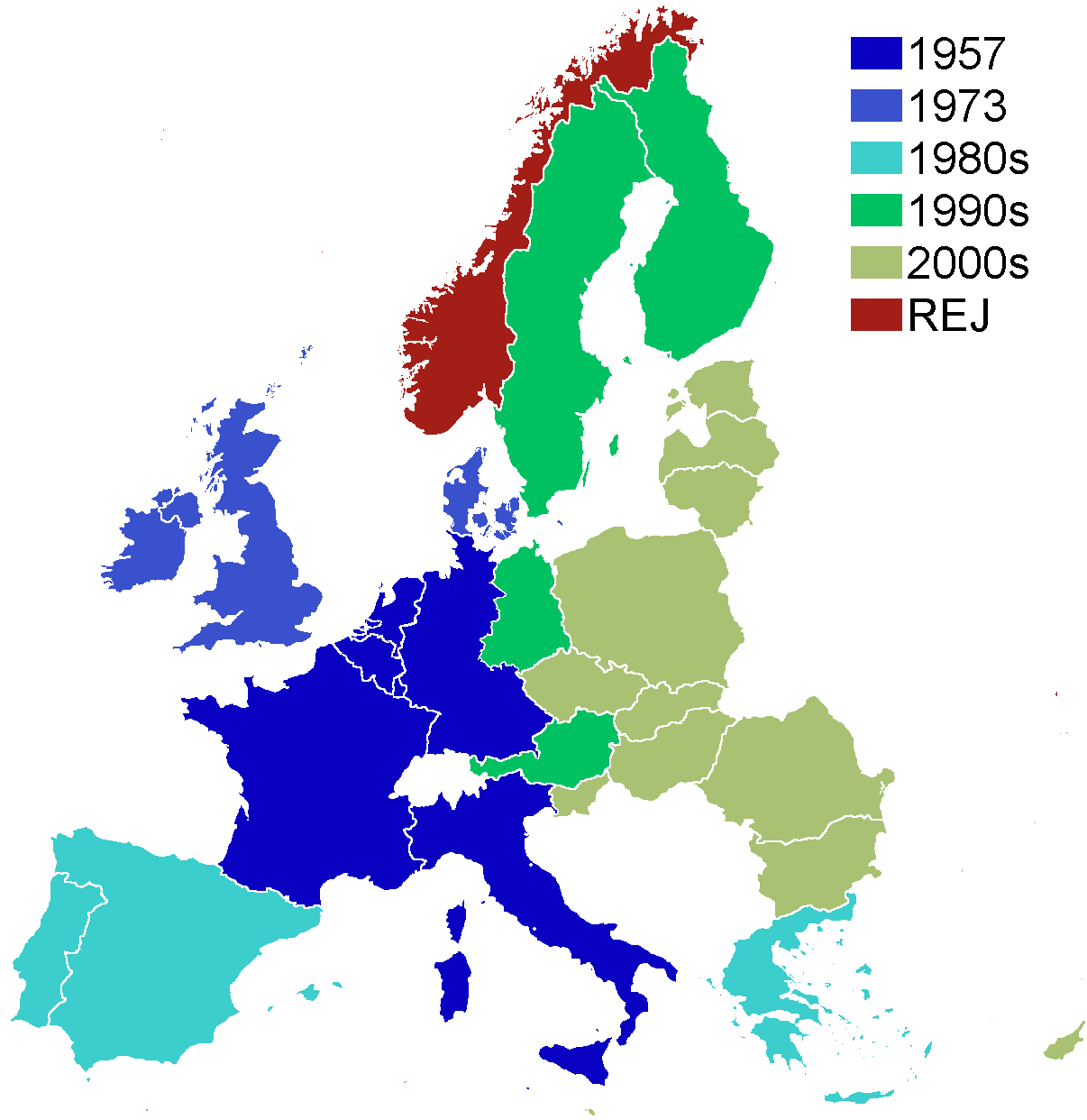 Founders ('50s) First enlargement ('73) Mediterranean enlargement ('80s) EFTA & East Germany ('90s) Eastern bloc enlargements ('00s) Referendum failed